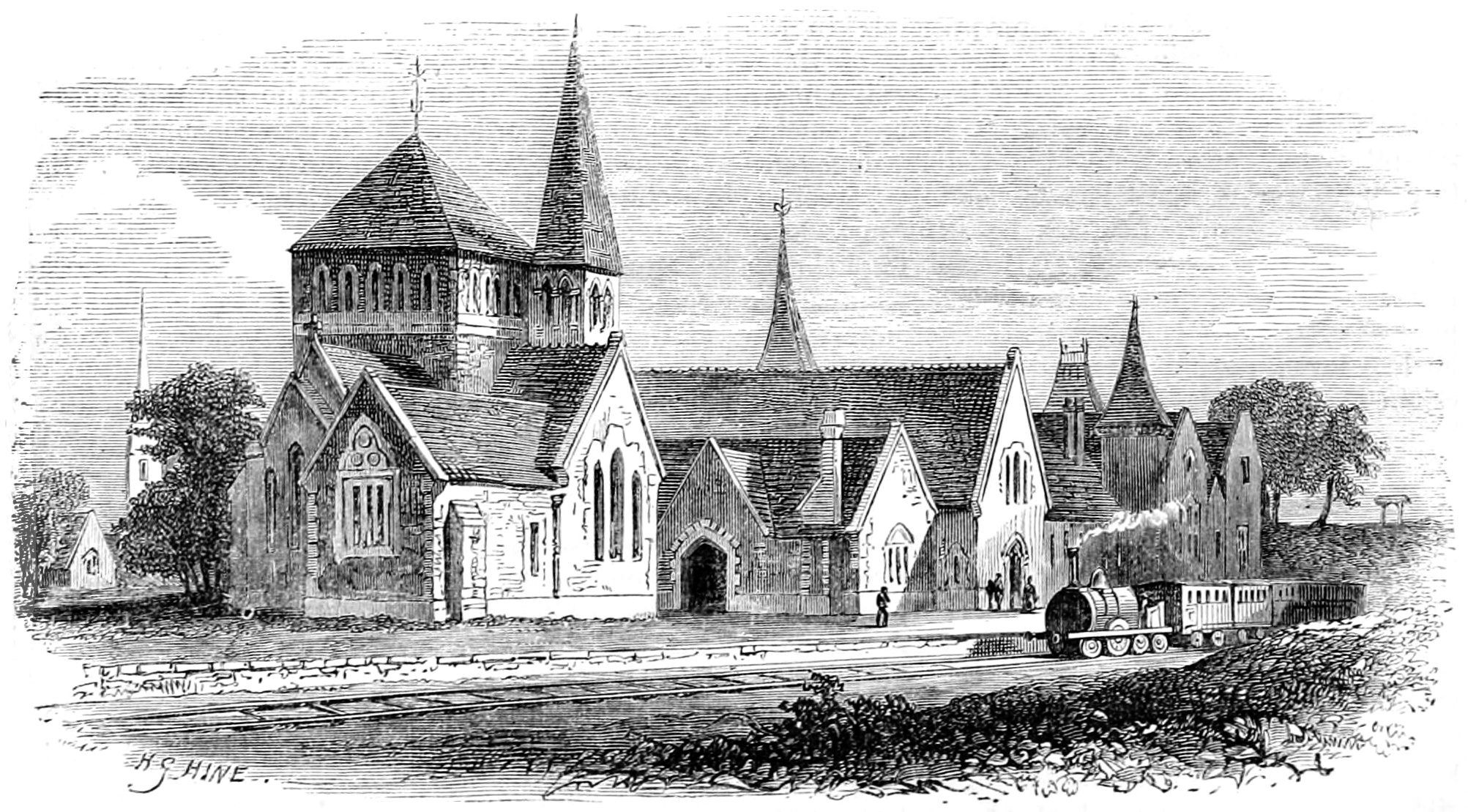 From a magazine article, 1861 view of Colney Hatch railway station with the spire of the Anglican chapel at Colney Hatch Cemetery visible at back left. Once a Week, volume 5, page 615.